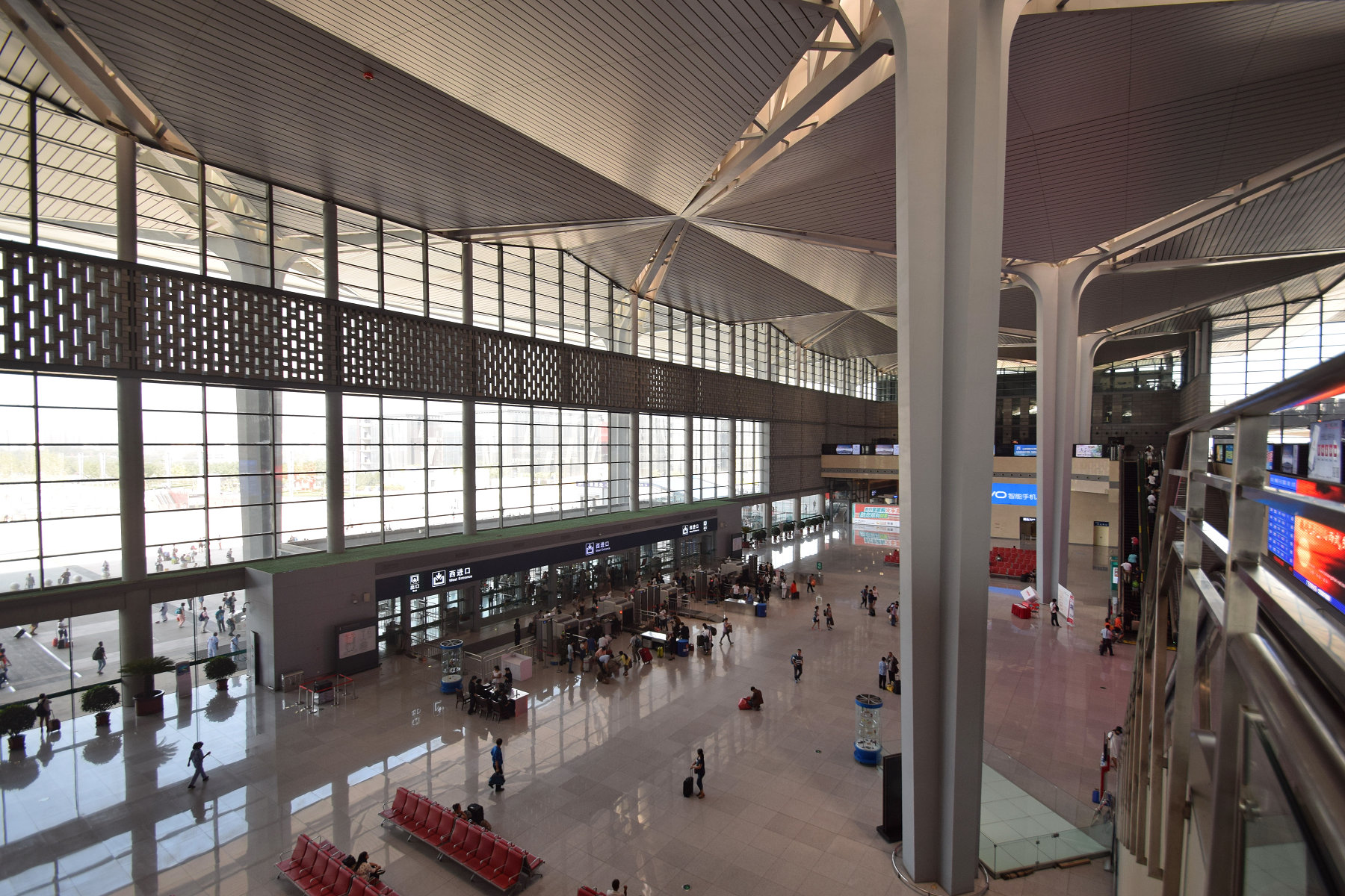 West Entrance of Taiyuan Nan (South) Railway Station